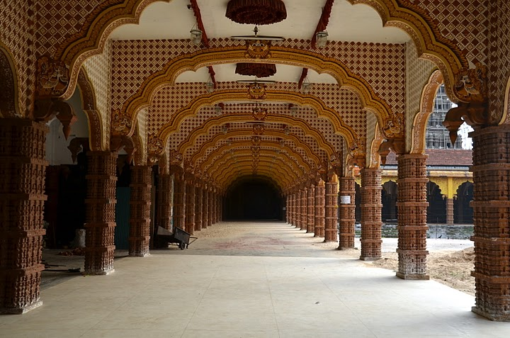 Nallur inner court yard